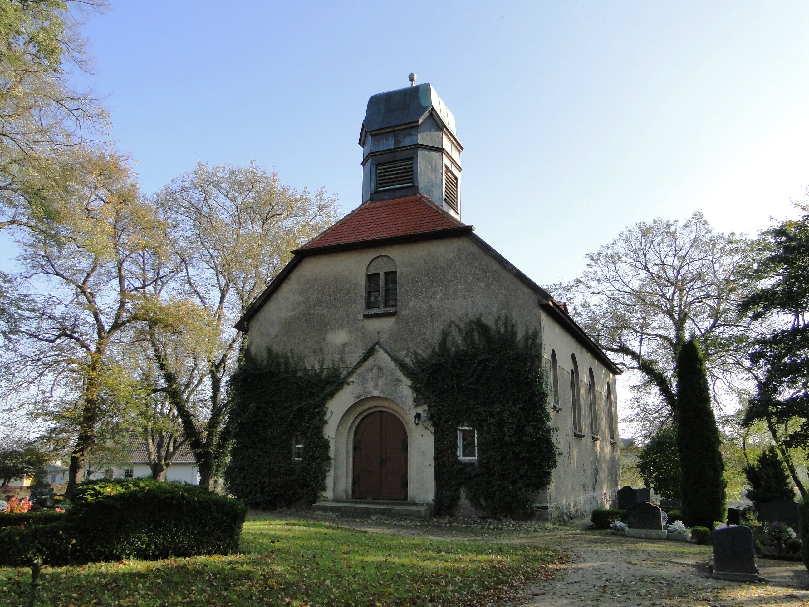 Church in Lapitz, district Müritz, Mecklenburg-Vorpommern, Germany